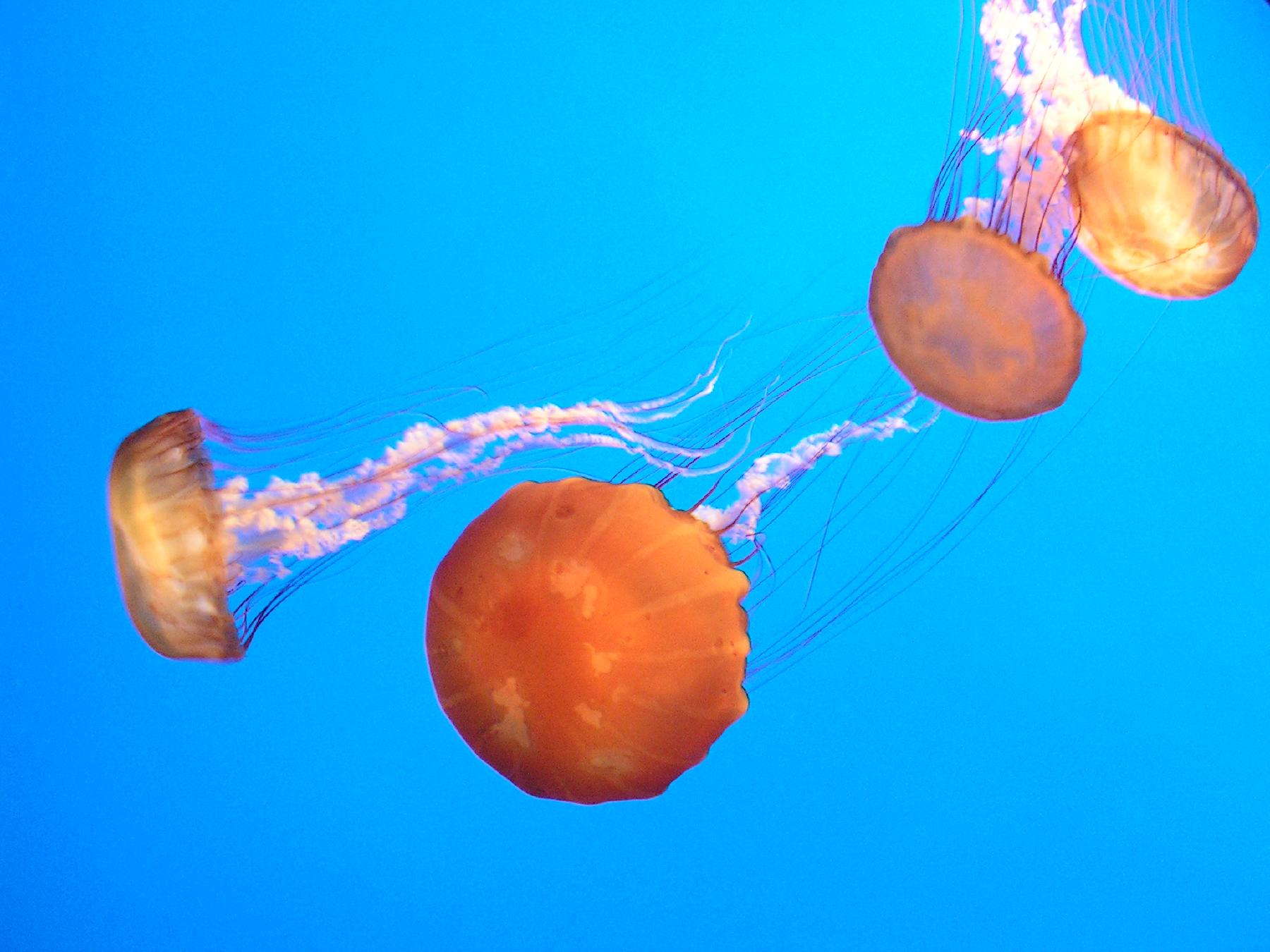 Sea nettles (Chrysaora fuscescens) at Monterey Bay Aquarium